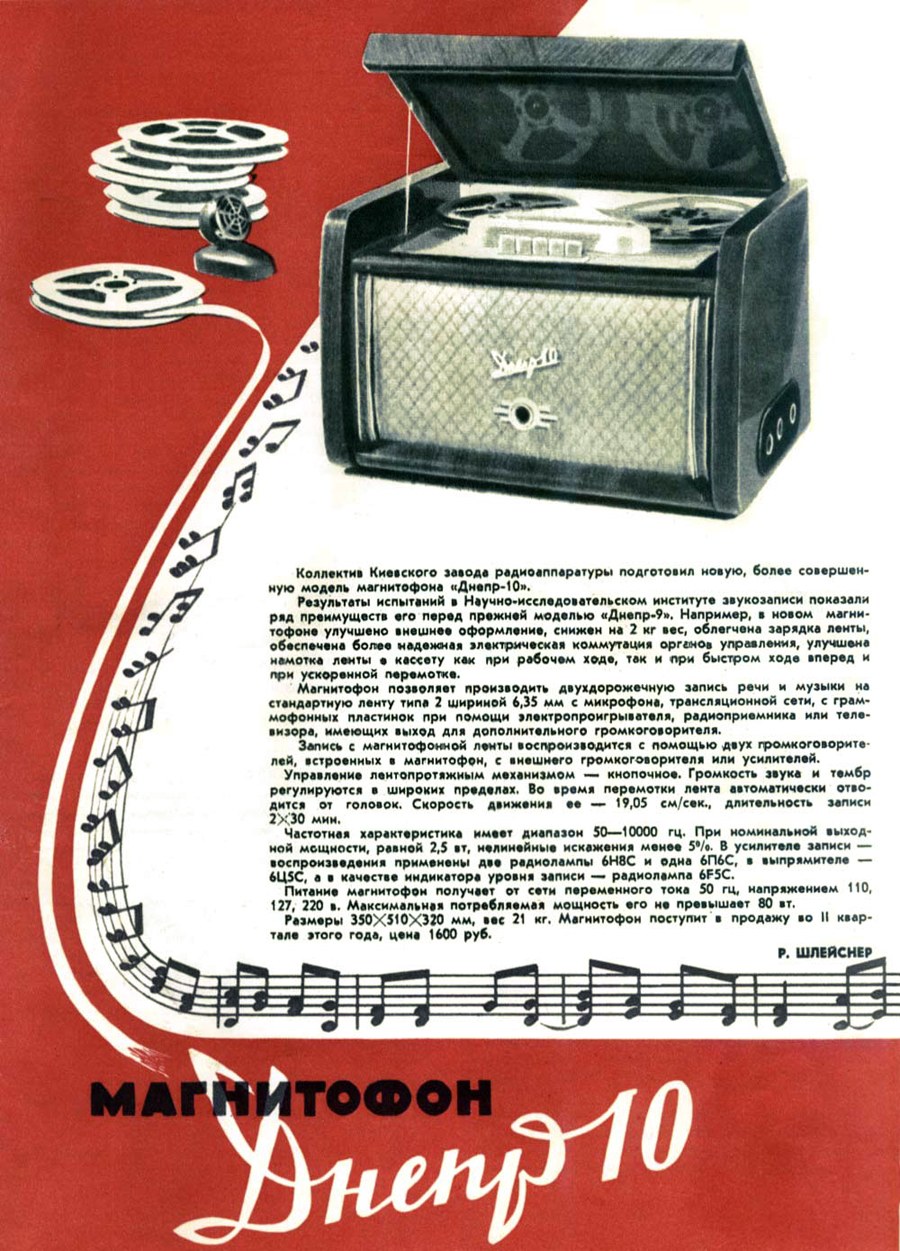 USSR (Ukraine) “Dhepr-10” tape recorder 1958